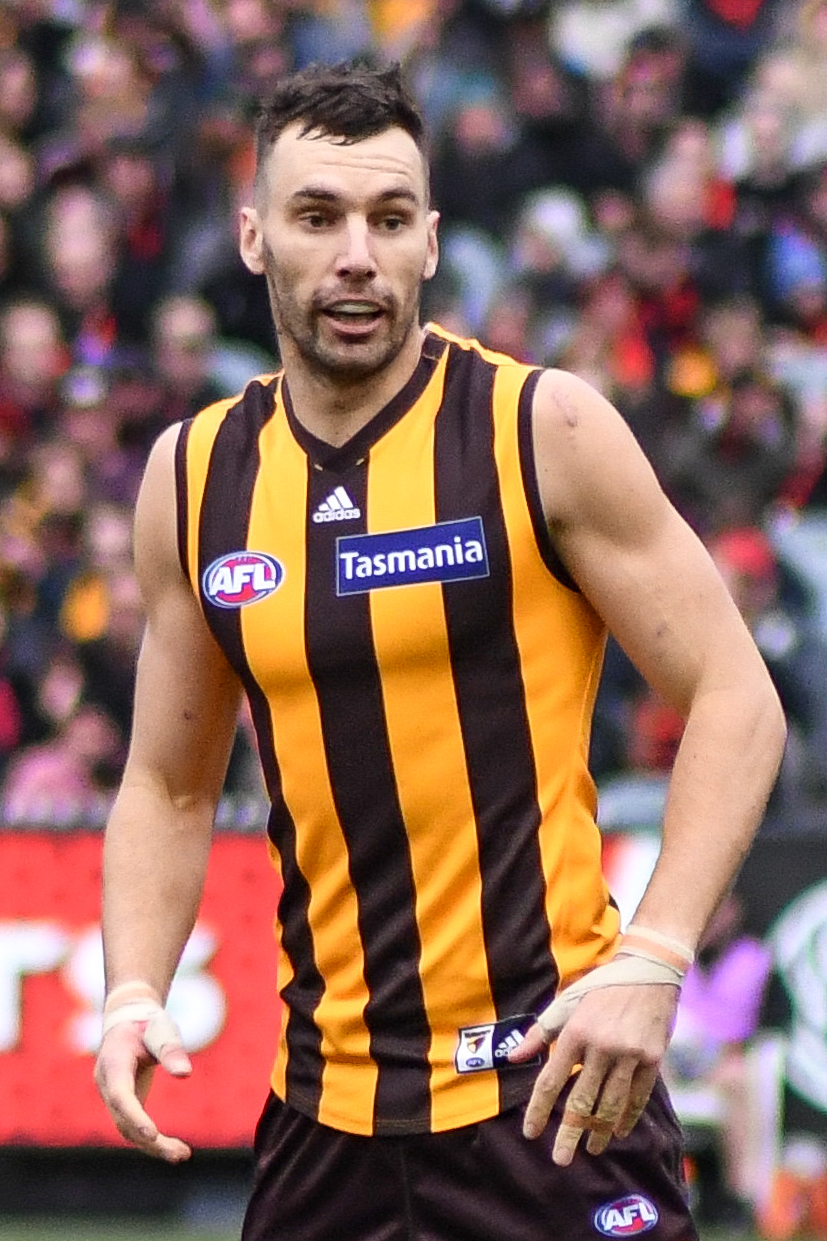 Jonathon Ceglar of Hawthorn during the 2018 AFL round 20 match between Hawthorn and Essendon at the Melbourne Cricket Ground on Saturday, 4 August 2018 in Melbourne, Victoria.